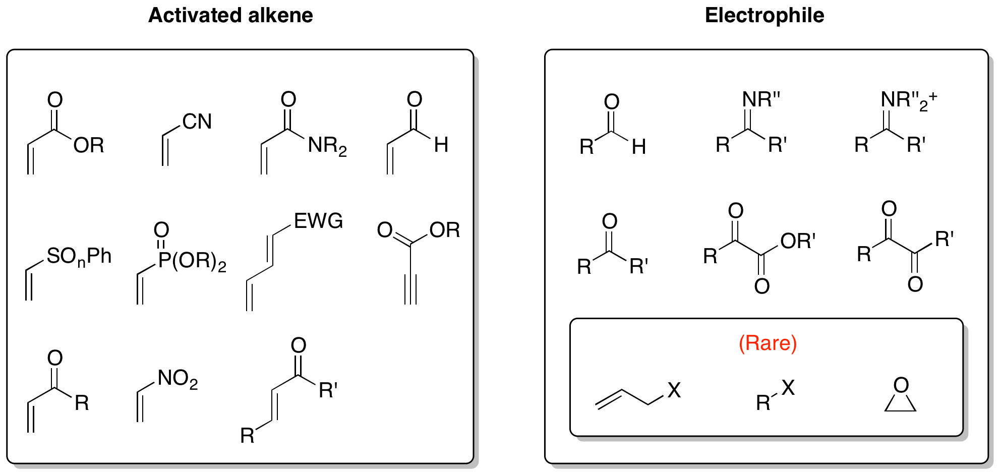 MBH Scope